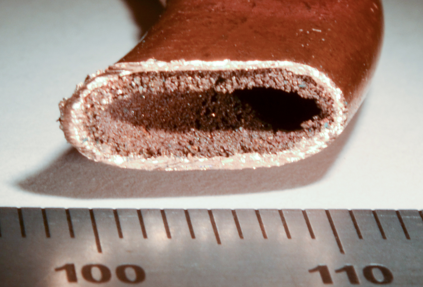 Cross section of a heat pipe for cooling the CPU of a laptop computer. Ruler scale is millimeters. The computer was made by Hewlett-Packard in 2008.